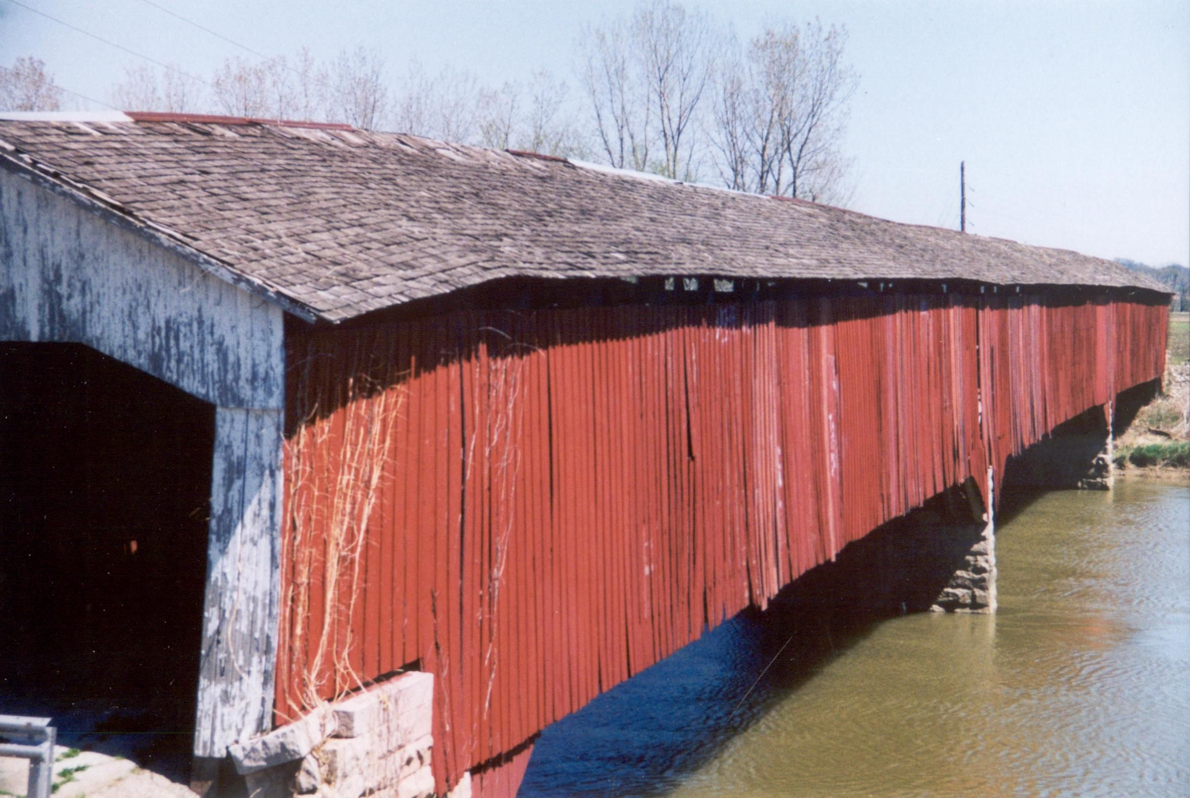 The Medora Covered Bridge is a rare three span Burr Arch.